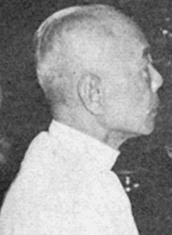 Kou Abhay (ກຸ ອະໄພ), chairman of the council of ministers and Sisavang Vatthana (ພຣະບາທສົມເດັຈພຣະເຈົ້າມະຫາຊີວິຕສີສວ່າງວັດທະນາ), crown prince of Laos and Ba U (ဘဦး), president of Burma, at the opening of the Laos-Cambodia session of the Buddhist Council (Chaṭṭa Sangāyanā), 1955-04-28.